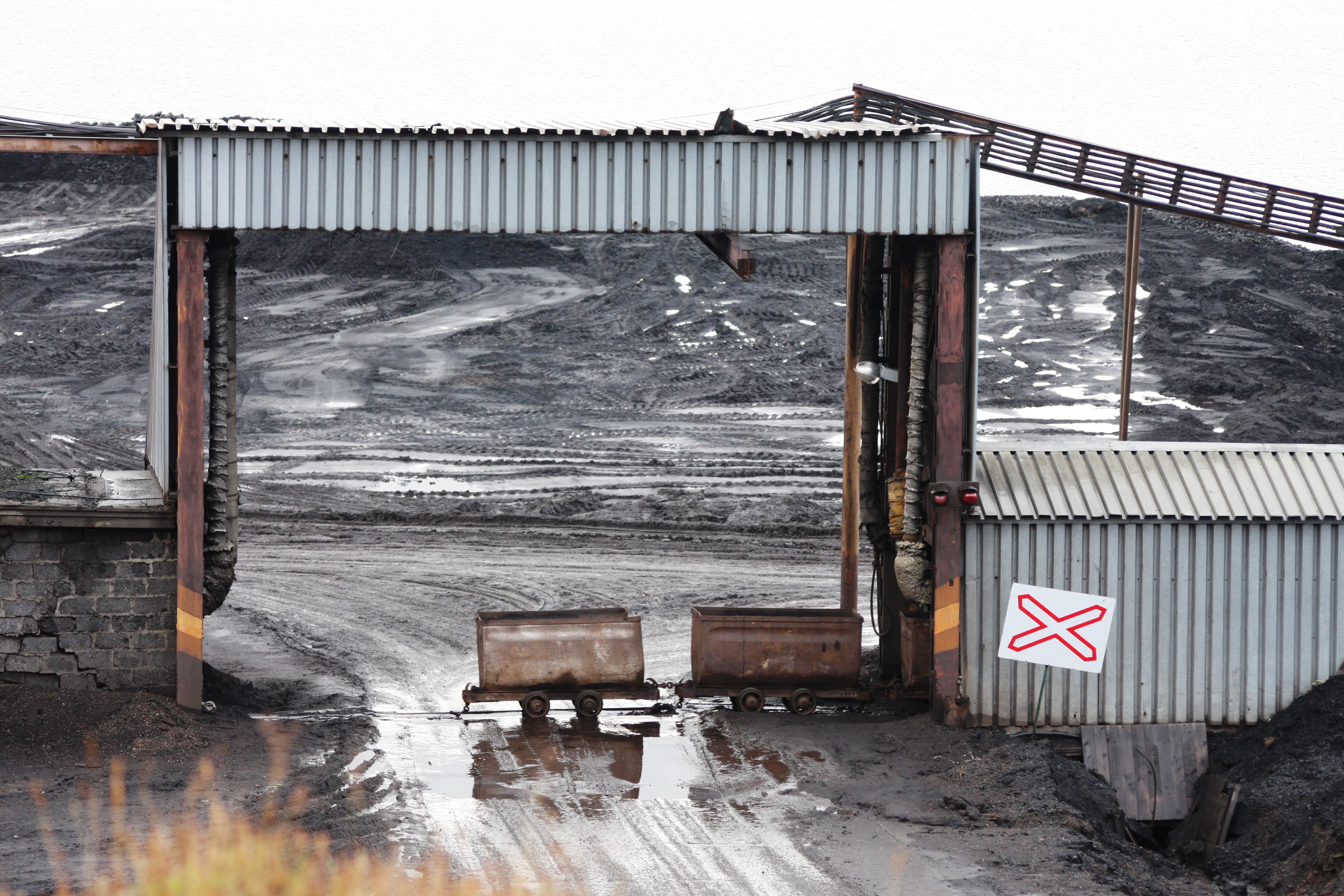 Barentsburg, Svalbard. Arktikugol coal train.